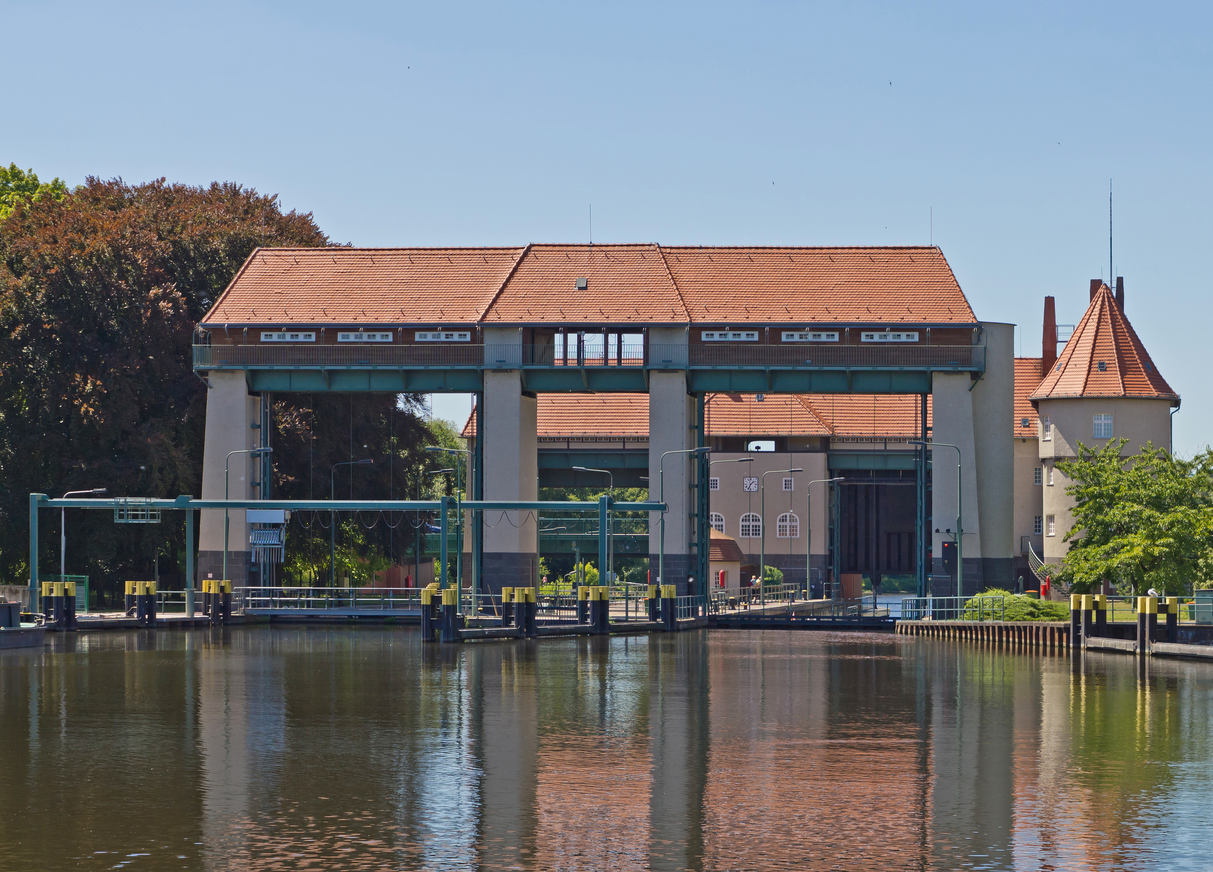 Canal lock in Kleinmachnow, Brandenburg, Germany